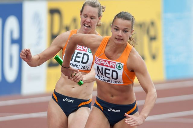 Eva Lubbers taking the baton from Marit Dopheide at the 2012 European Championships in Athletics, Helsinki.